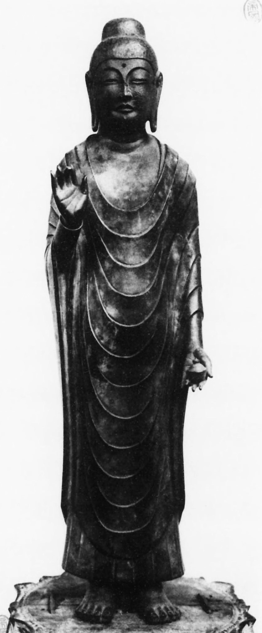 The bronze statue of Yakushi Nyorai as known as Kō-Yakushi made in Nara period, the former collection of Shin-Yakushiji, Nara, Nara prefecture. A Important Cultural Property of Japan but stolen and missing in 1943.